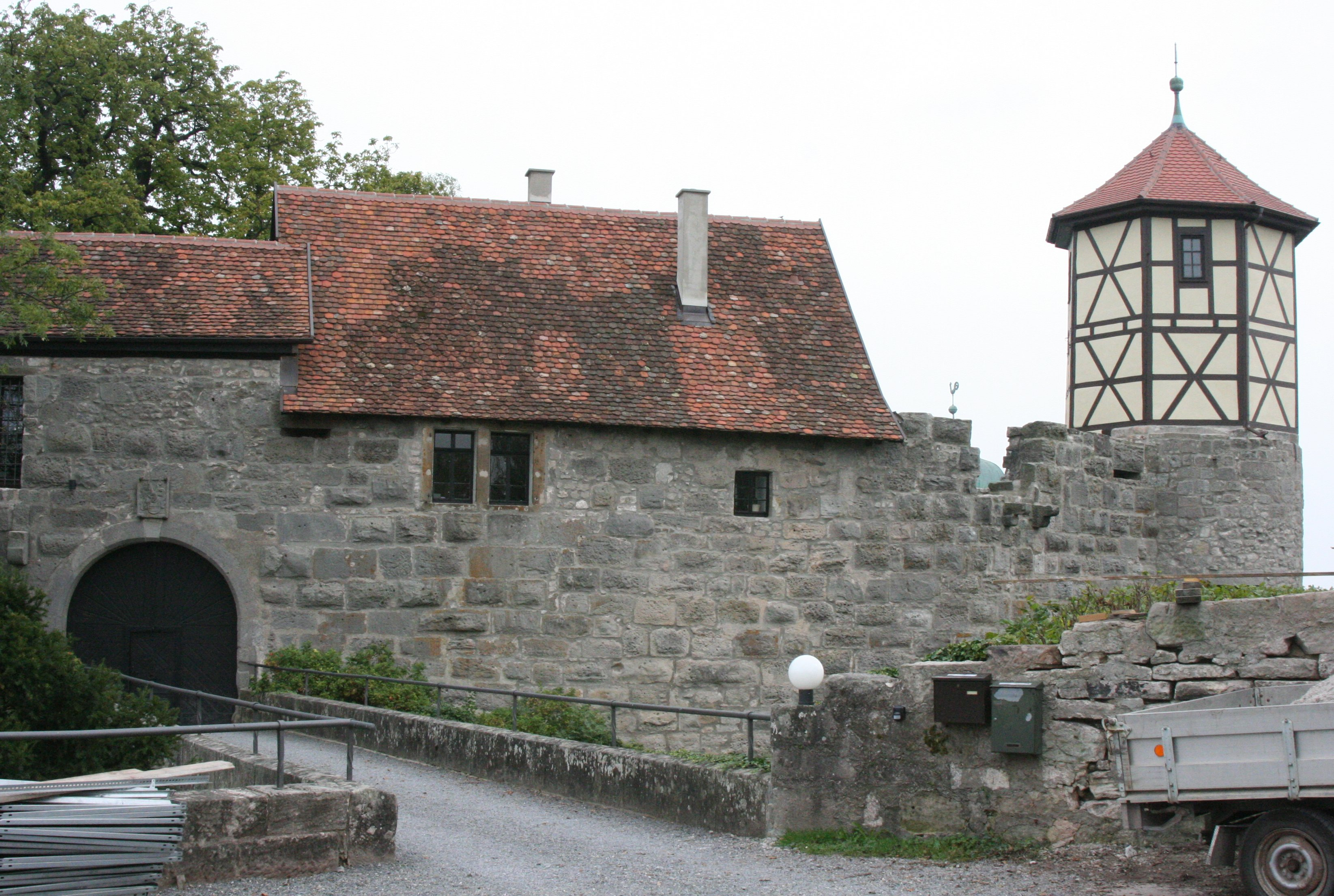 Maienfels castle in Wüstenrot-Maienfels, Germany